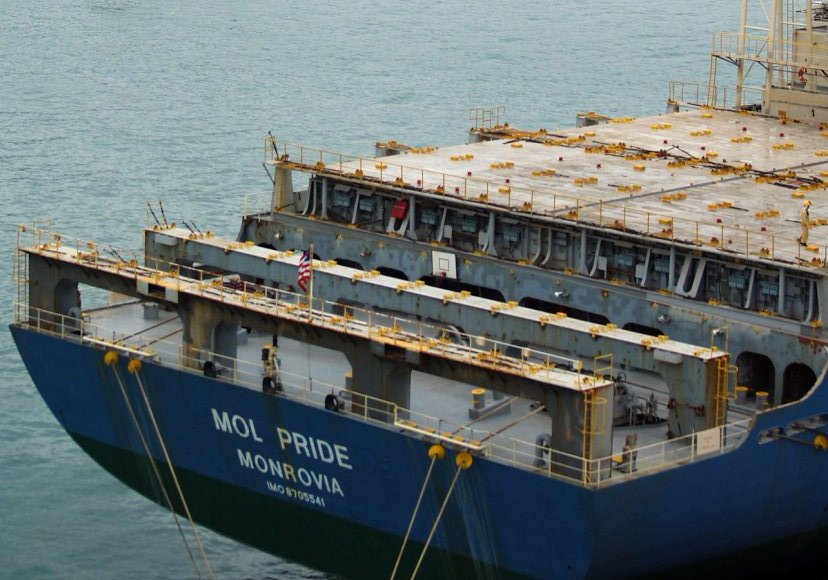 IMO number : 8705541 Name of ship : MOL PRIDE Call Sign : ELJO8 Gross tonnage : 41,126 Type of ship : Container Ship Year of build : 1988 Flag : Liberia